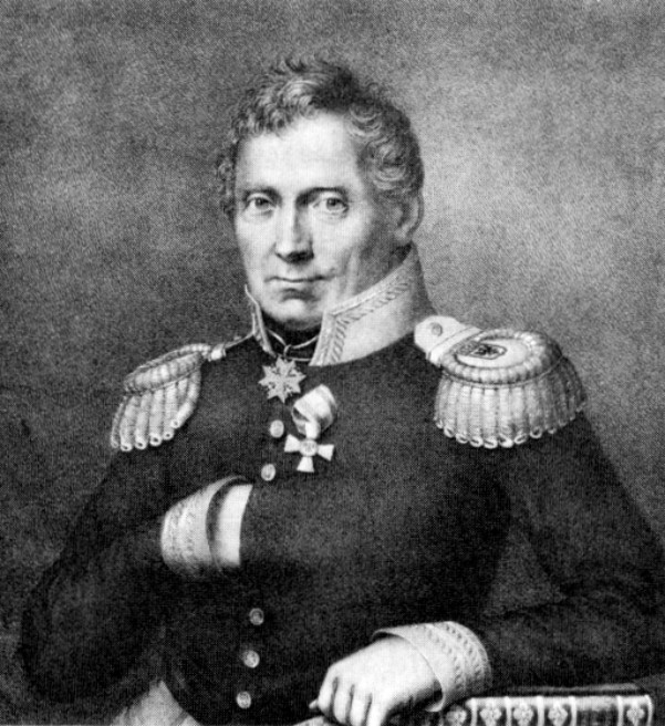 Portrait of Georg Heinrich Rudolf Johann von Reisswitz, inventor of kriegsspiel. NOTE: Though the source of this image might be dubious, this likely an image of Reisswitz judging by the uniform and medals. Reisswitz was awarded the Iron Cross and the Order of St John.